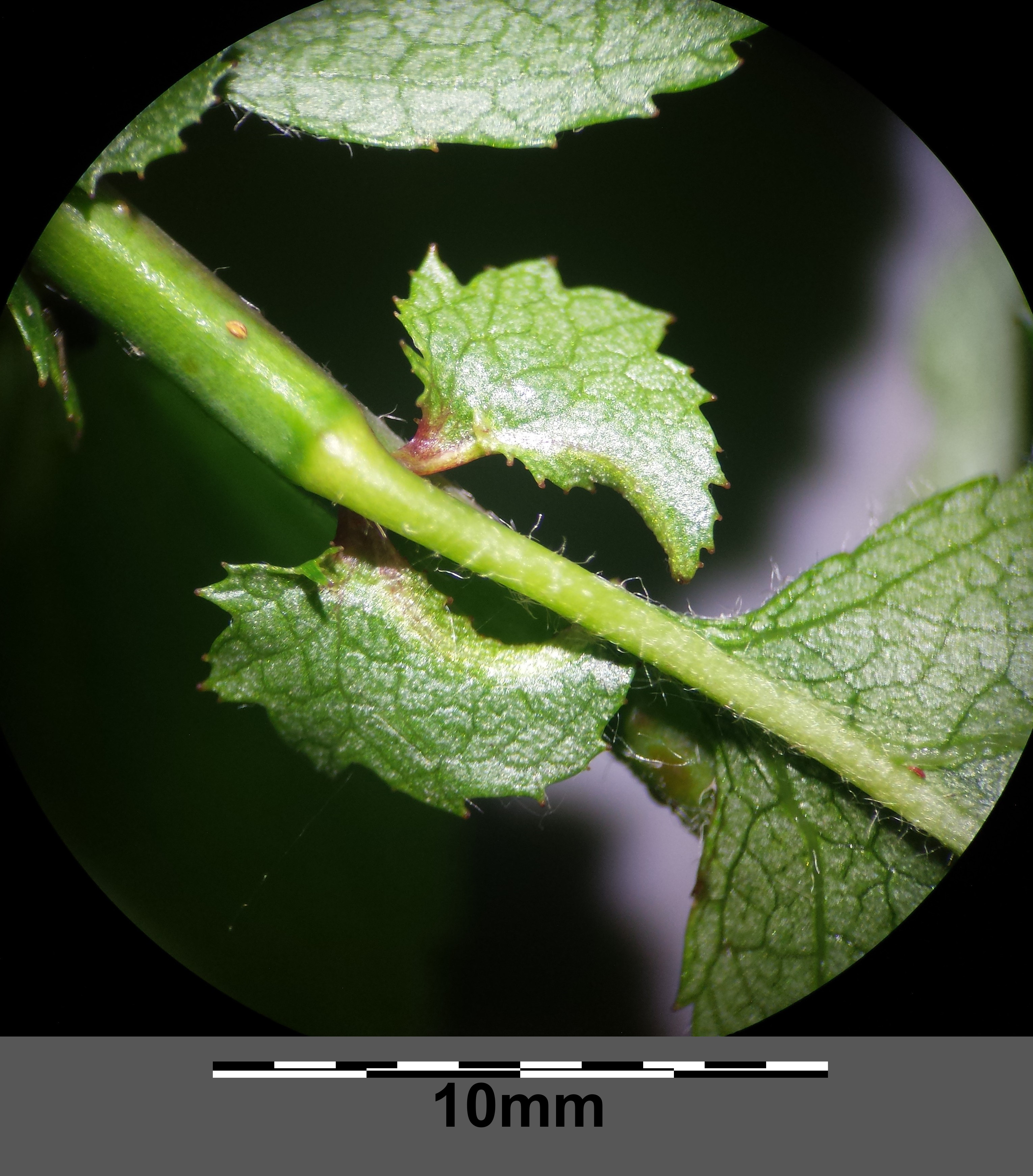 Stem with stipules Taxonym: Crataegus laevigata (subsp. laevigata) ss Fischer et al. EfÖLS 2008 ISBN 978-3-85474-187-9 Location: Rohrwald, district Korneuburg, Lower Austria - ca. 330 m a.s.l. Habitat: Carpinion betuli